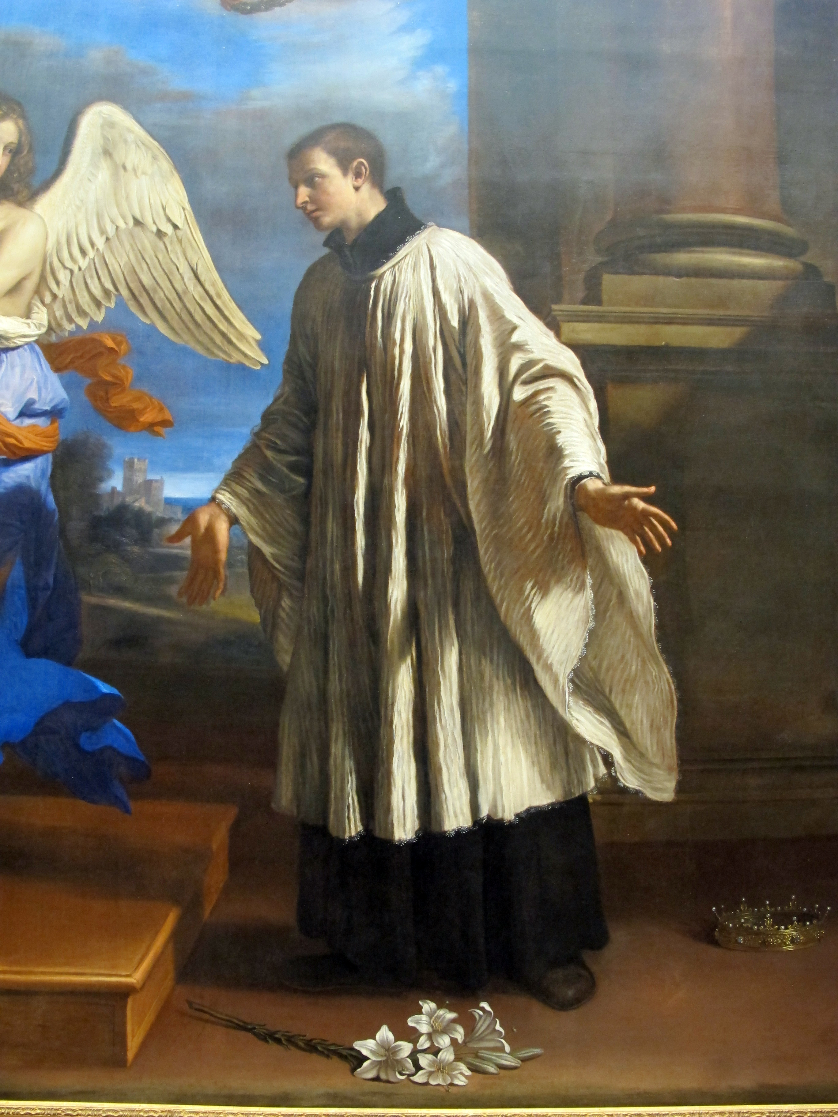 Italian Baroque paintings in the Metropolitan Museum of Art